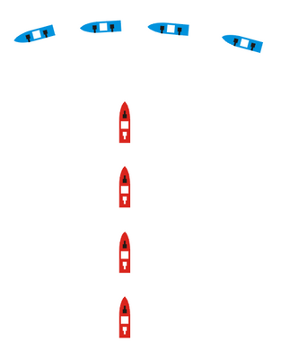 Das "Crossing the T" - Manöver